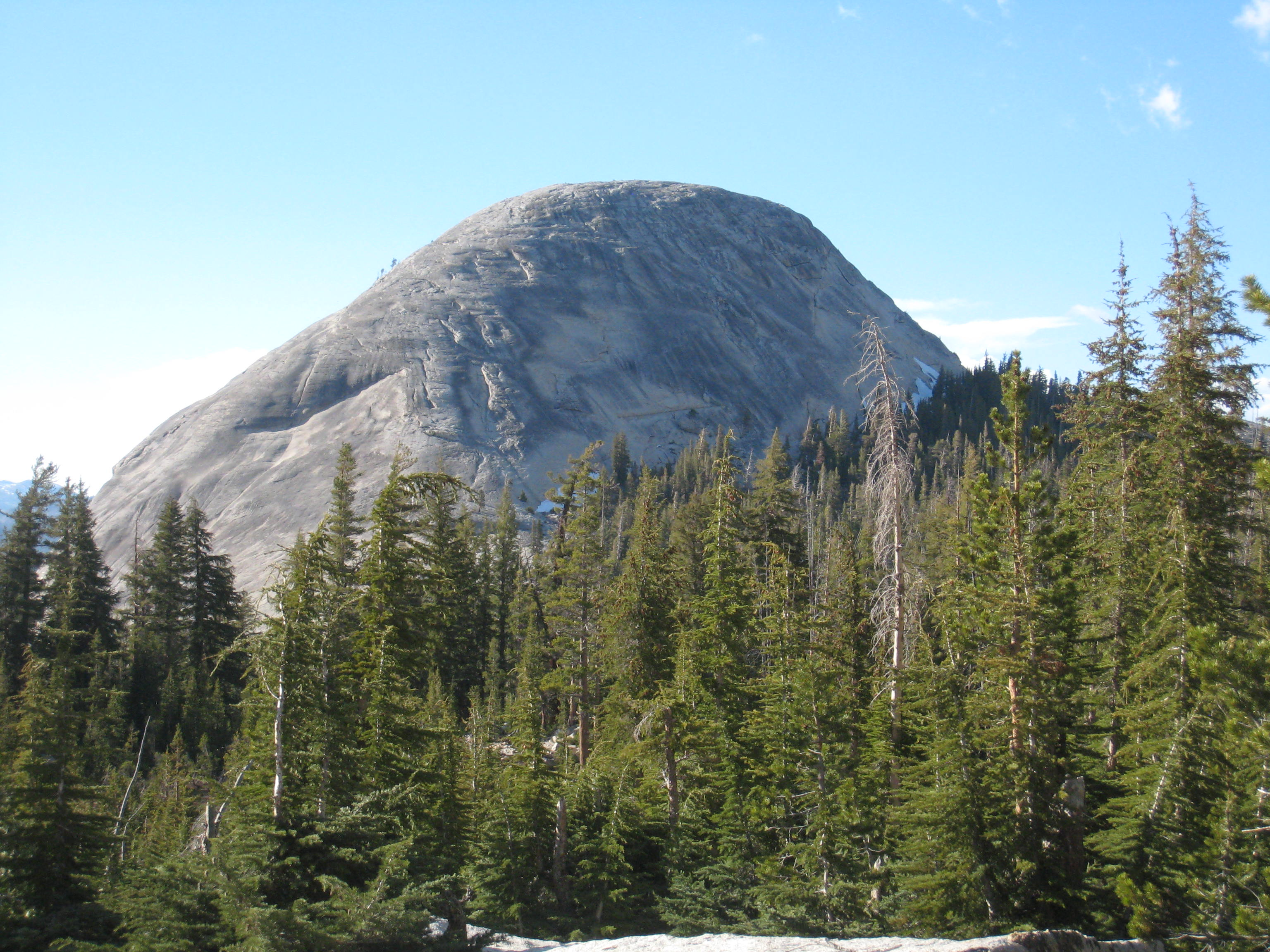 Southeast face of Fairview Dome in Yosemite National Park